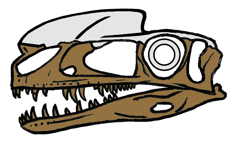 Drawing of skull from the theropod dinosaur Proceratosaurus bradleyi, a tyrannosauroid from United Kingdom,dated to the late jurassic period. Proceratosaurus skull measured about 30 cm. References Proceratosaurus skull (from the right). Proceratosaurus skull (from the left).